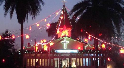 Golaghat Baptist Church during Christmas Eve